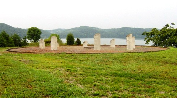 The Chota monument in Monroe County, Tennessee, in the southeastern United States. The monument, built directly above the townhouse site of the ancient Cherokee village, contains 8 pillars, one for each of the 7 clans and the nation as a whole.